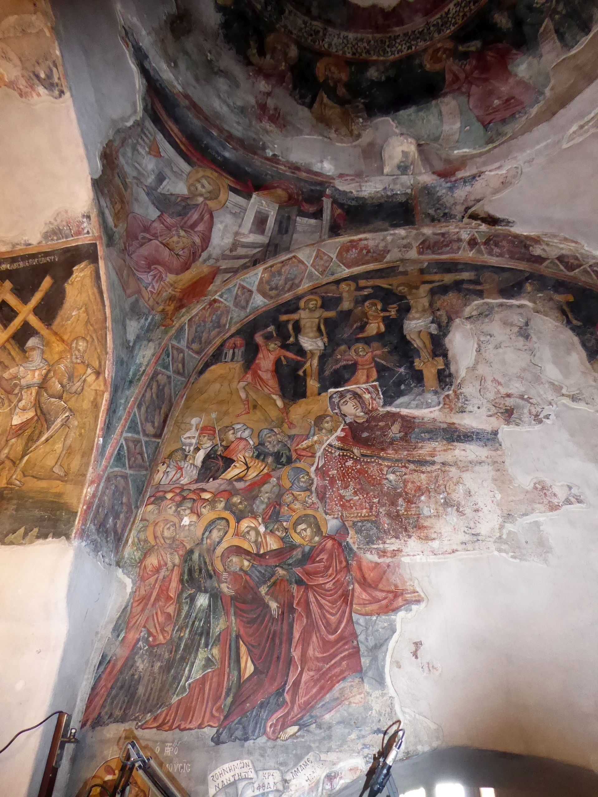 Frescos at Agia Paraskevi, Yeroskipou